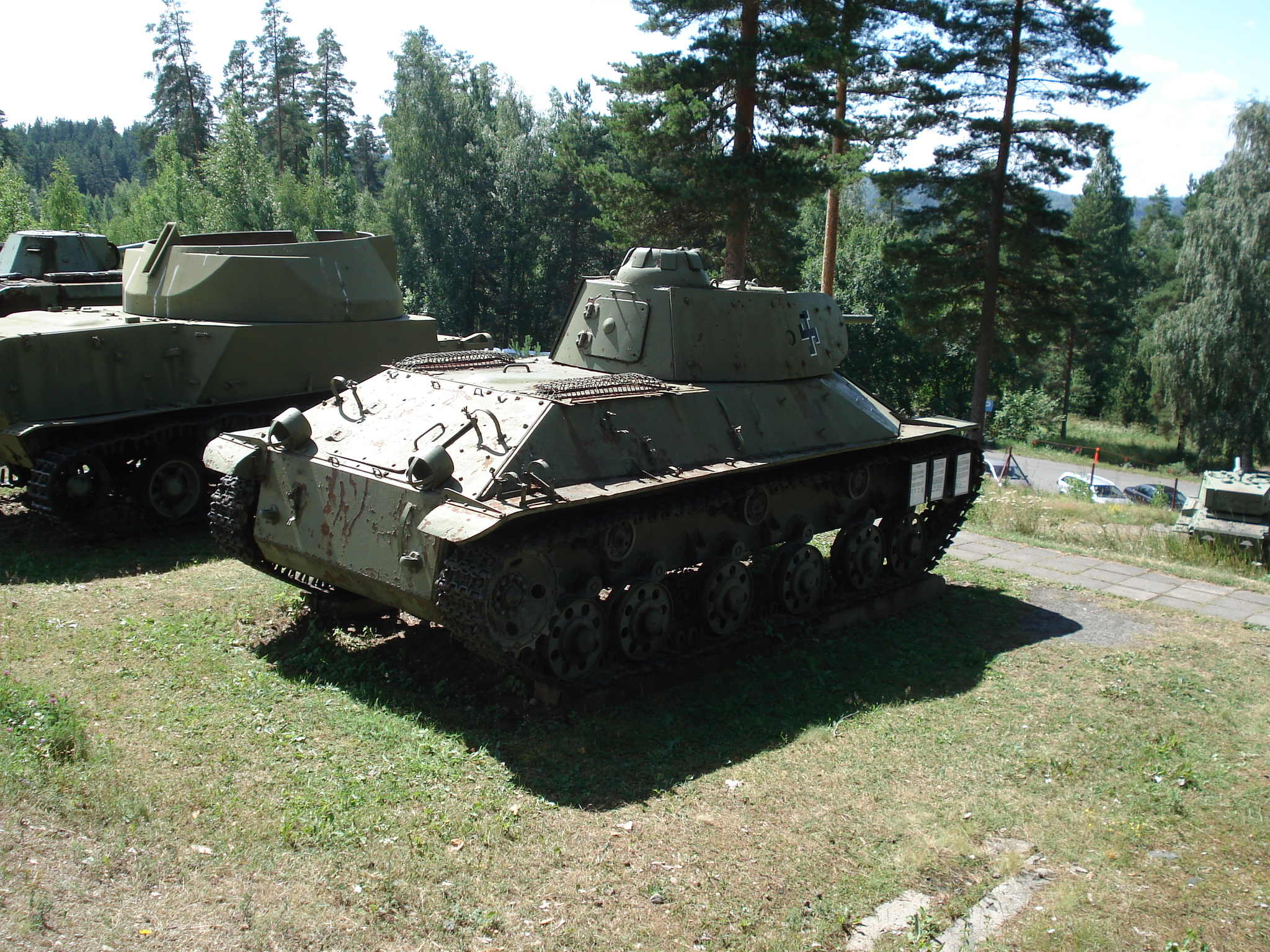 Soviet T-50 light tank, with Finnish markings, displayed in Finnish Tank Museum (Panssarimuseo) in Parola. Photo taken on July 14, 2006. Source: Photo by me, User:Balcer.